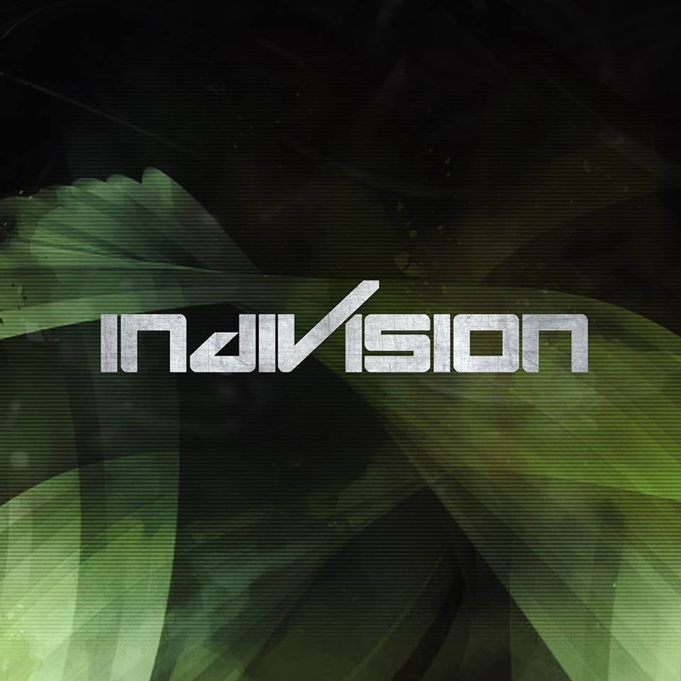 Profile Picture